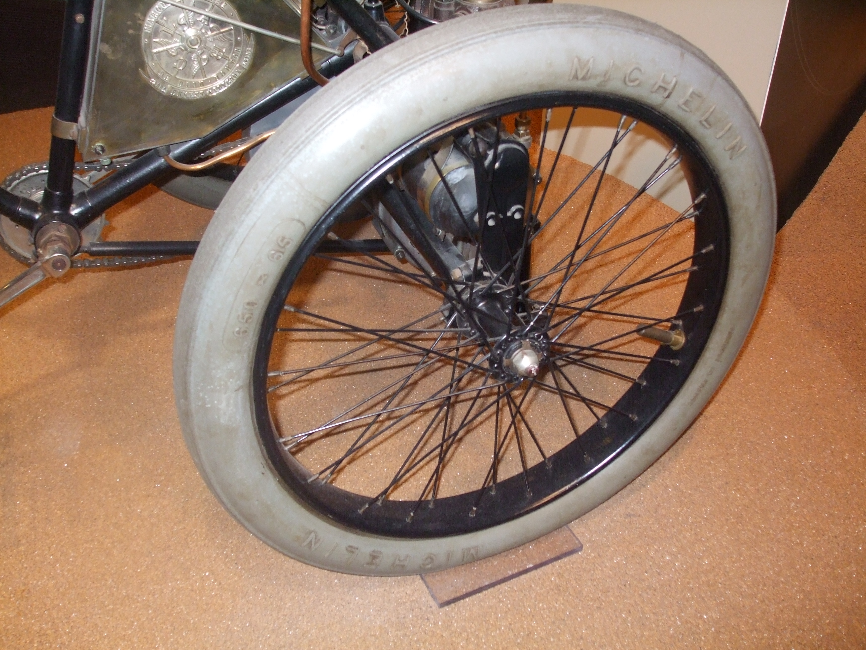 The Michelin Adventure in Clermont-Ferrand describes the rôle of Michelin in the development of the tyre. Michelin 650X65 on De Dion Motor tricycle